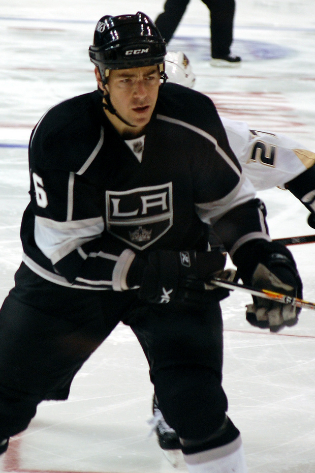 Sean O'Donnell at Staples Center, January 2009.